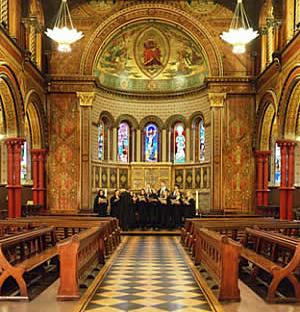 The Grade I listed College Chapel on the Strand Campus was redesigned in 1864 by Sir George Gilbert Scott